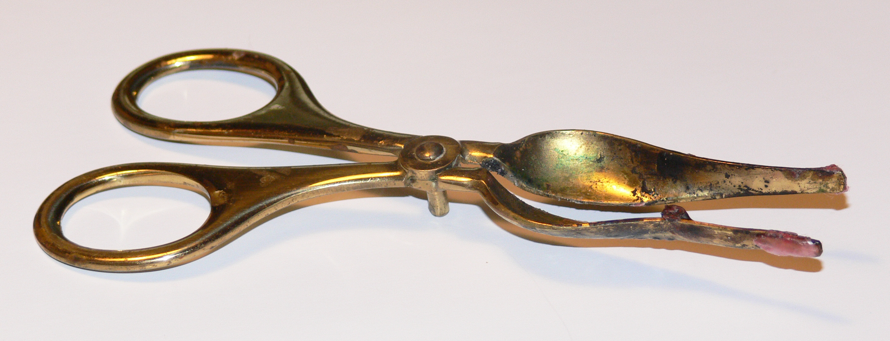 Snuffers